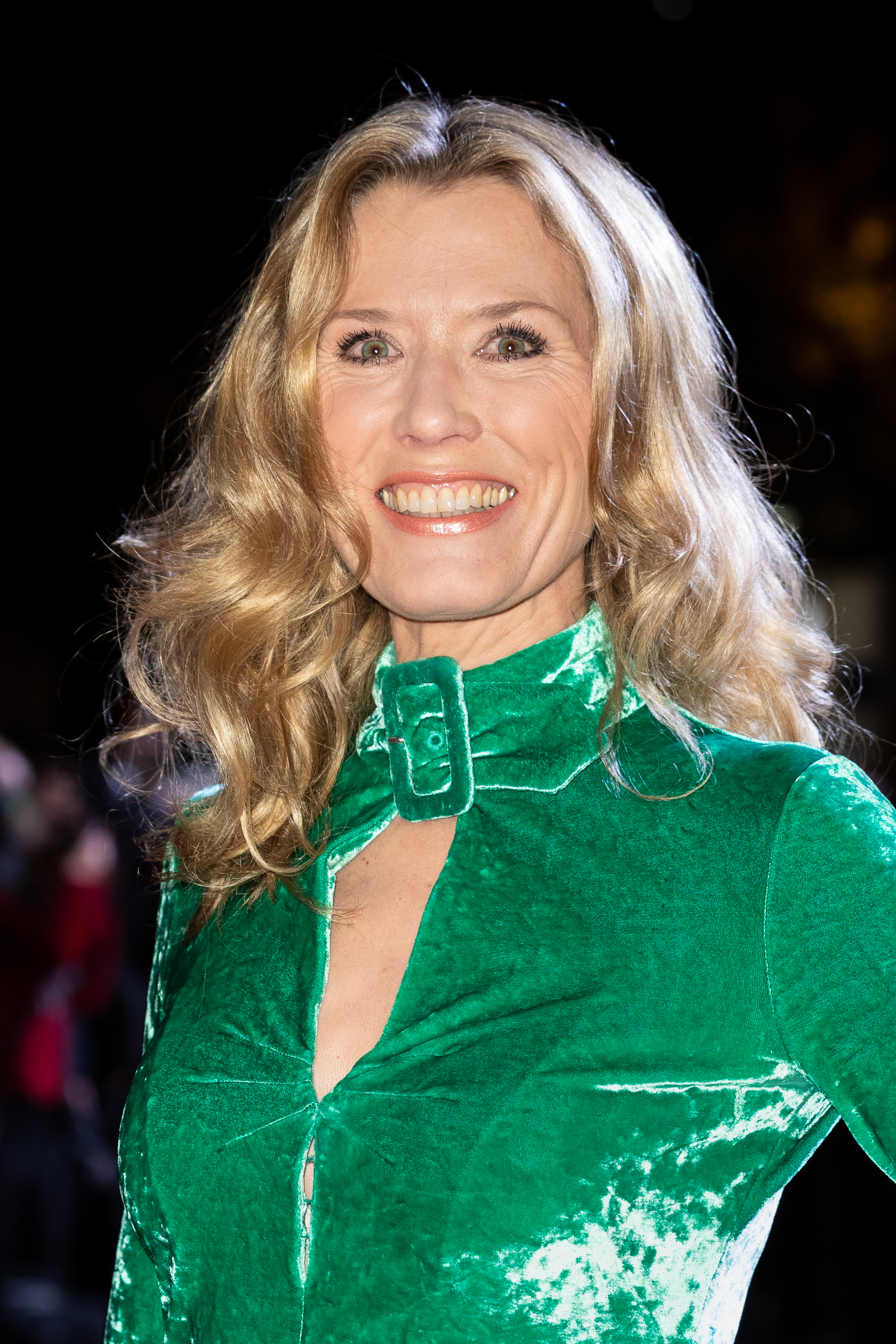 Franziska Reichenbacher on the red carpet of the Hessian Film and Cinema Prize 2019 in the Alte Oper Frankfurt.